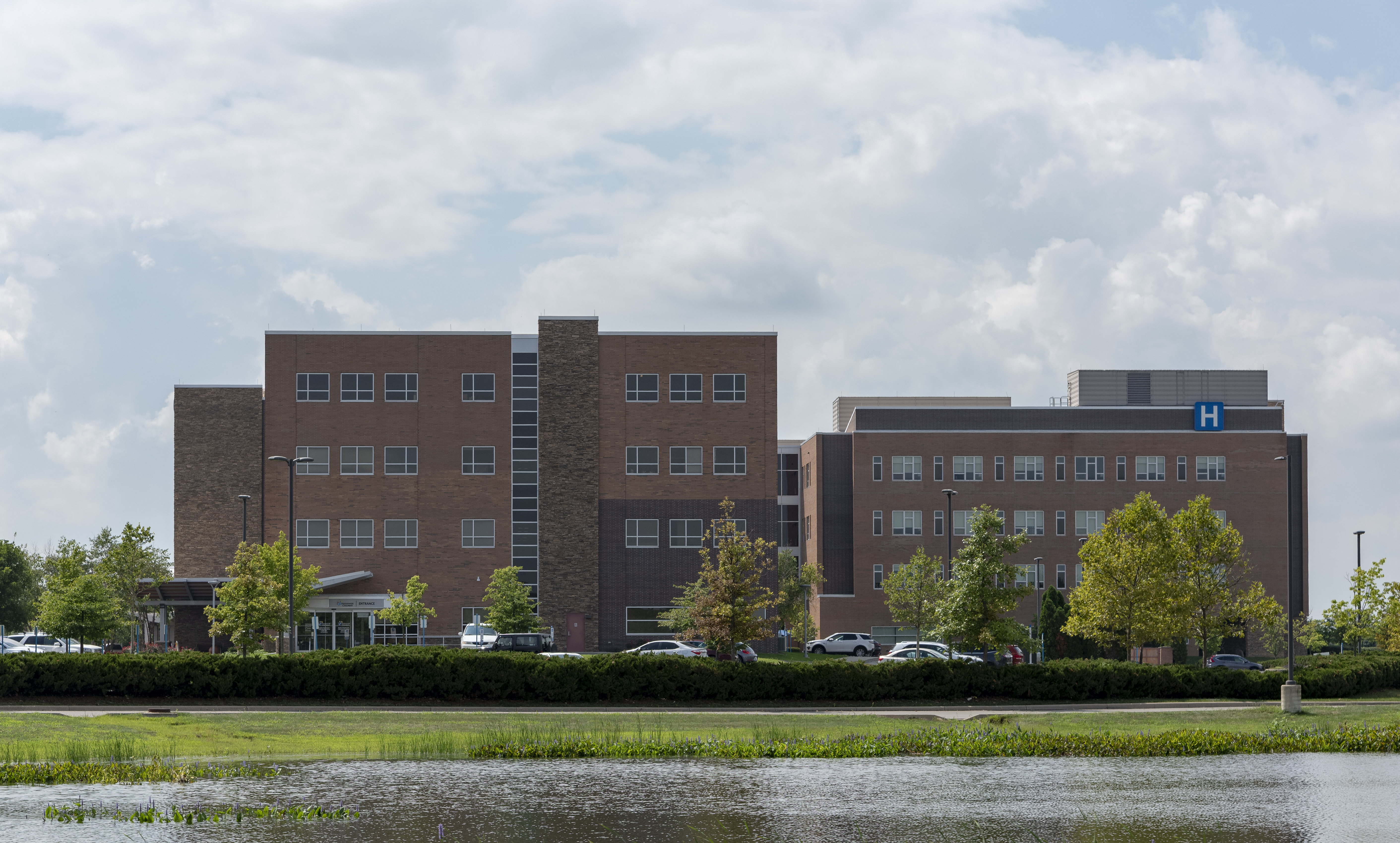 A view of the east wing Dublin Methodist Hospital looking due west right at it.